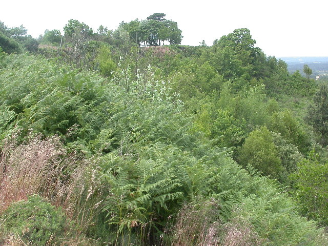 Caesar's Camp. Iron Age hill fort. The name, "Caesar's Camp", obviously came later.